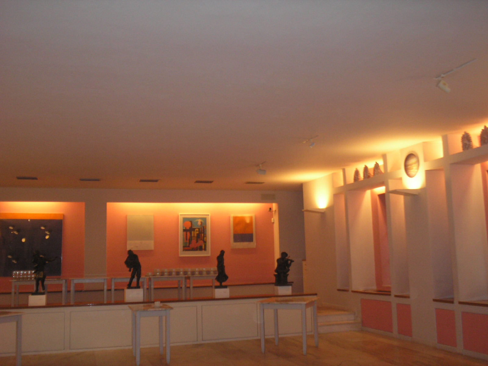 Ionic Center, reception hall.